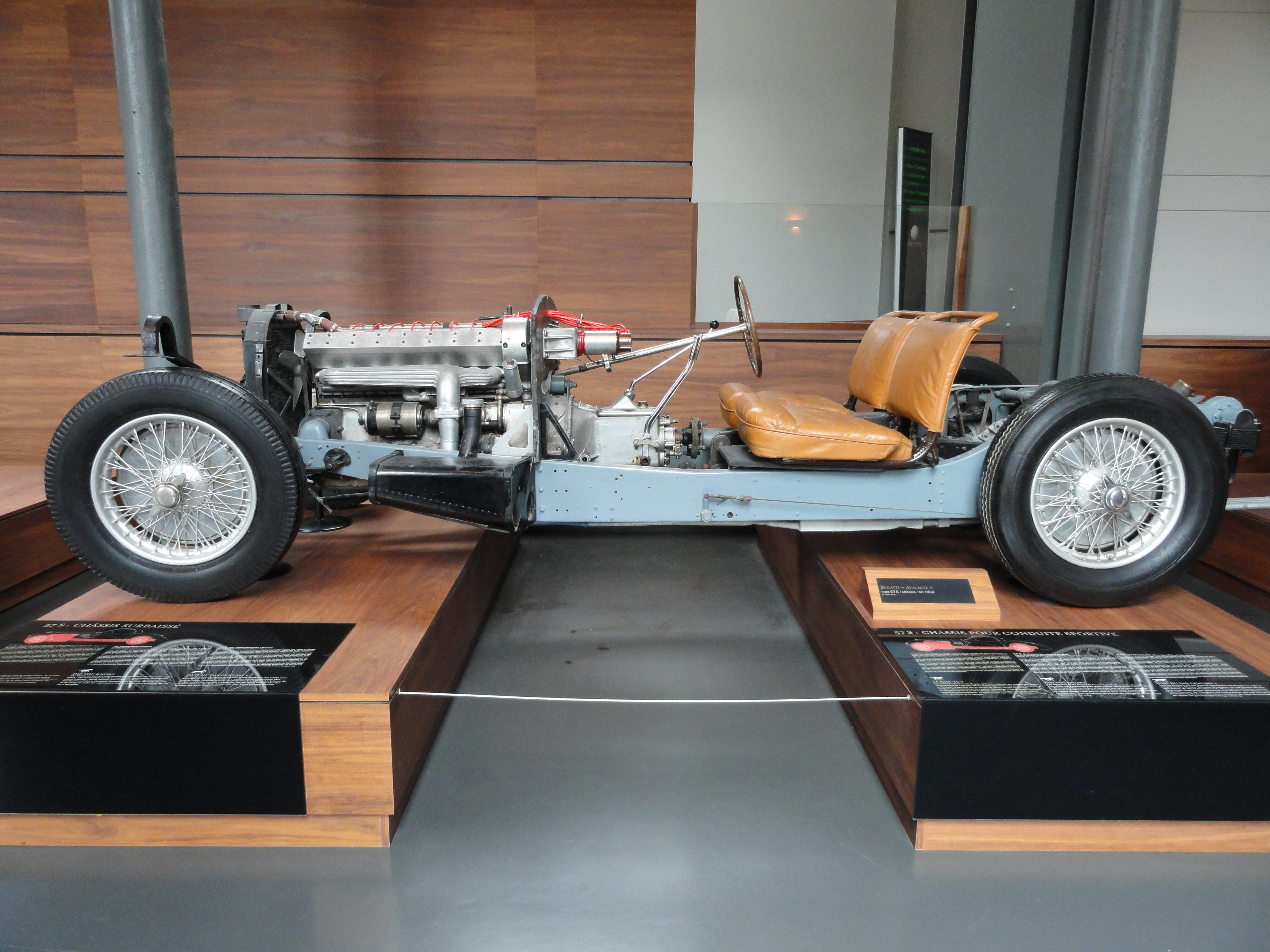 Photographed at the Cité de l’Automobile, France.